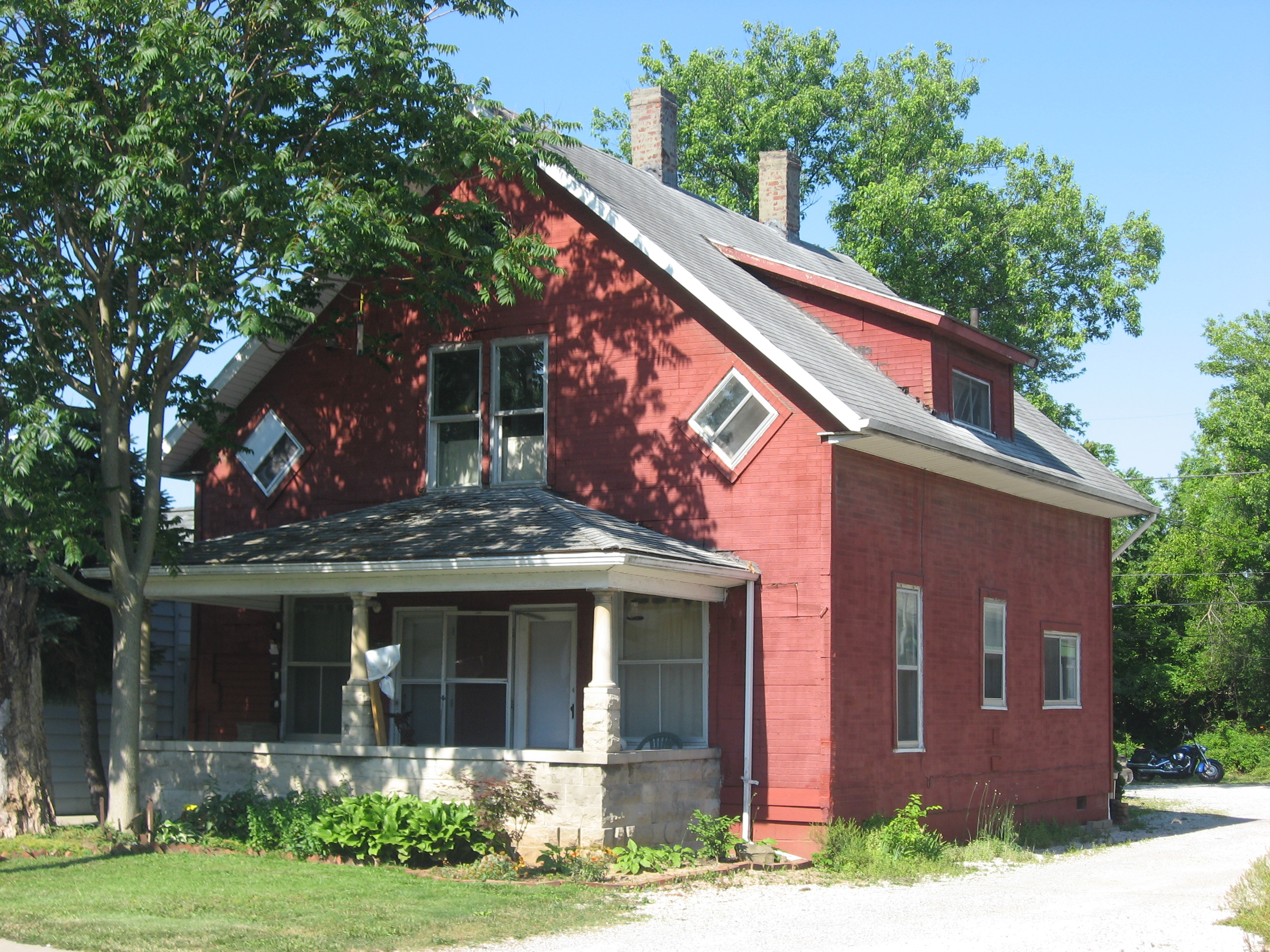 Front and northern side of the house located at 754 S. Walnut Street in Bloomington, Indiana, United States. It was built in 1910.